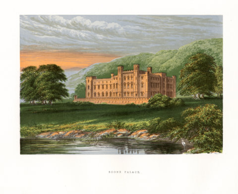 Scone Palace Baxter print c1880